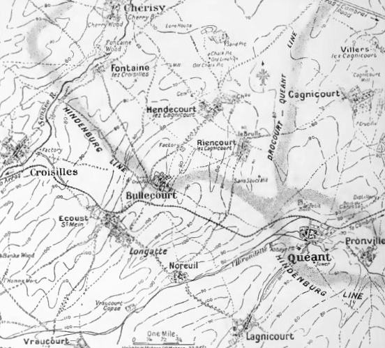 Relief map of the Hindenburg and Wotan lines around Bullecourt, 1917